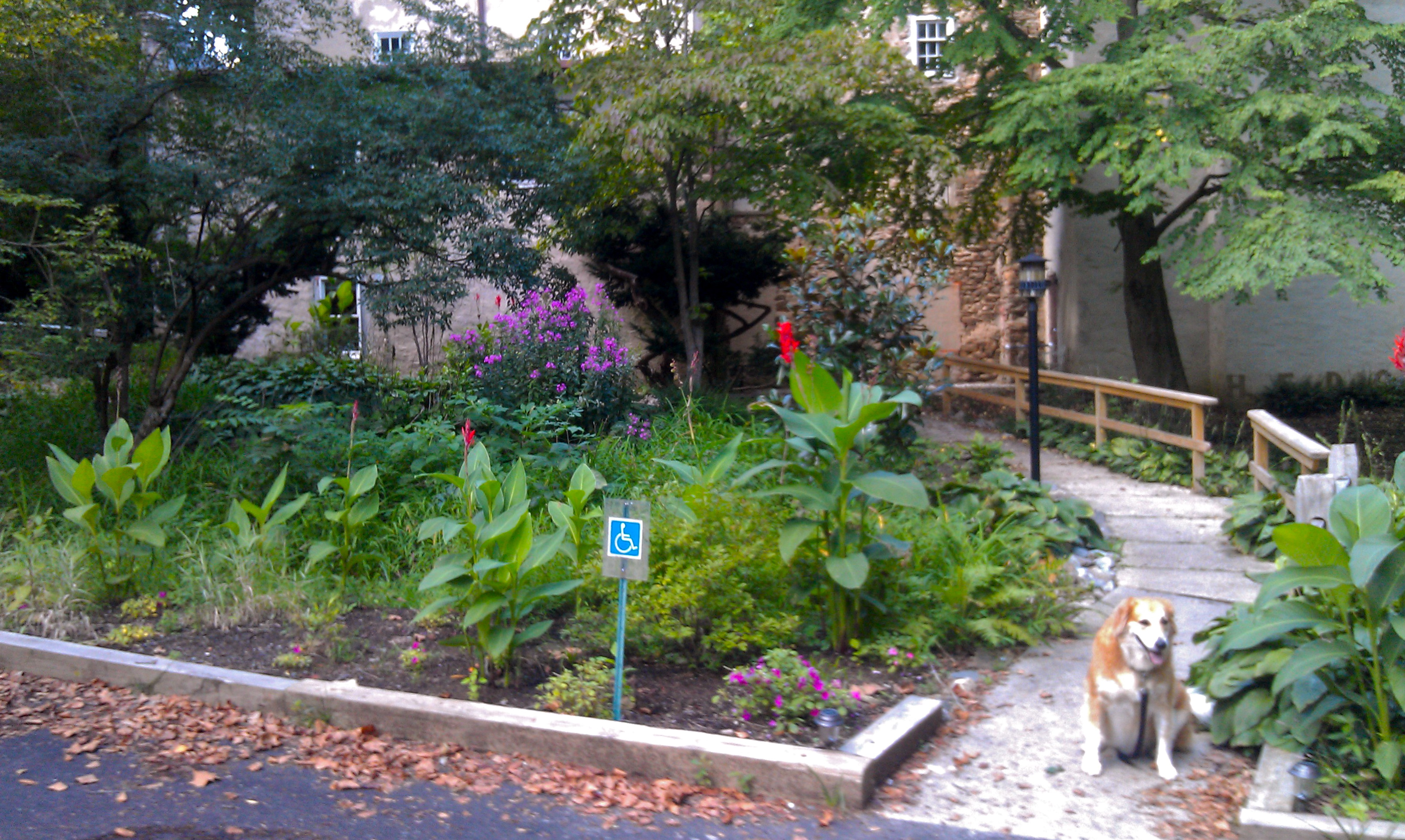 My dog Poligraf Poligrafovich sitting on the garden path at the Hedgerow Theatre in the Rose Value Historic District in Rose Valley, Delaware County, Pennsylvania. Taken with my cell phone (a 1st for me to upload one of these) and edited with iPhoto.